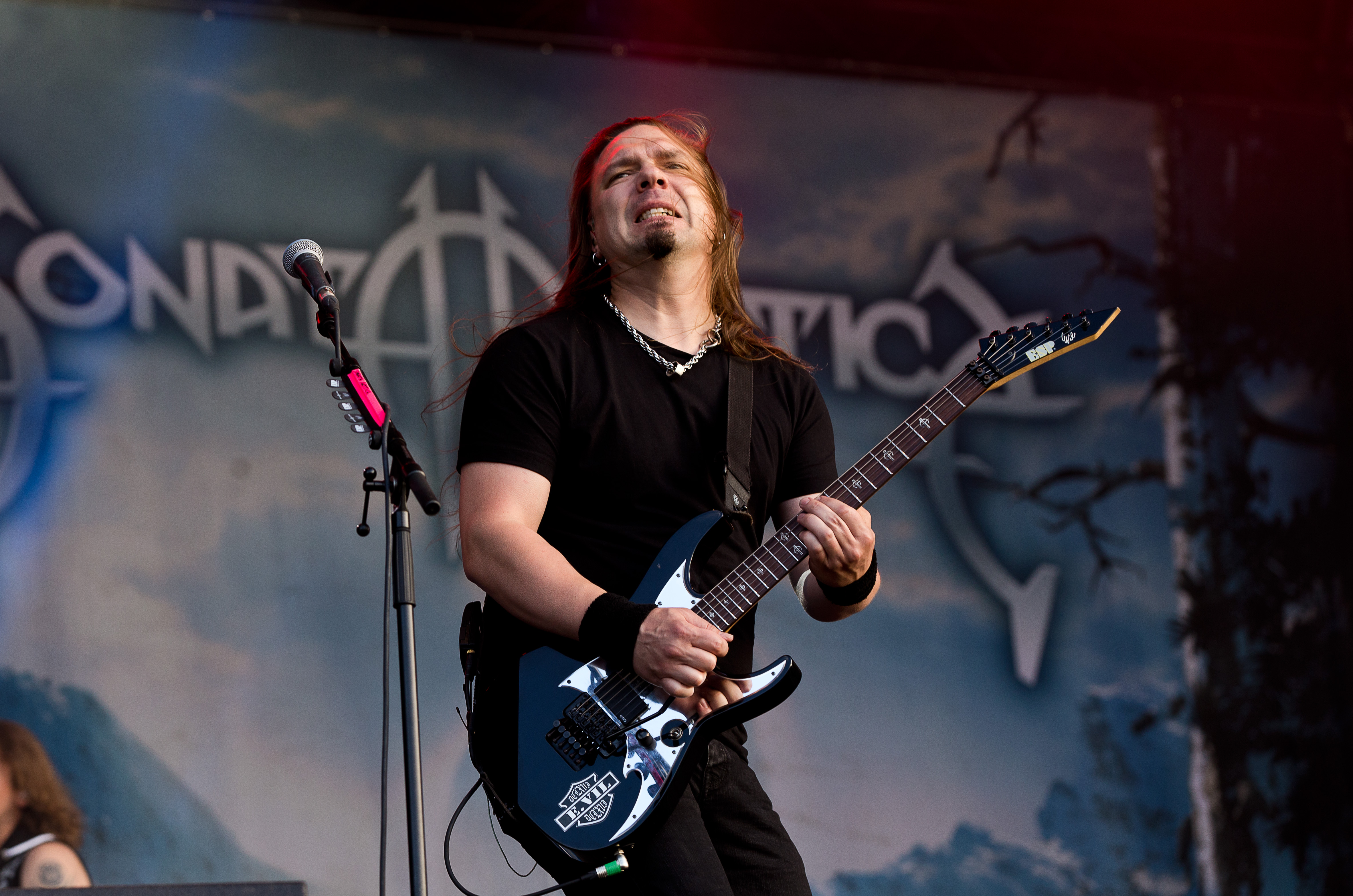 The Finnish power metal band Sonata Arctica at the Rockharz Open Air 2016 in Ballenstedt/Germany.